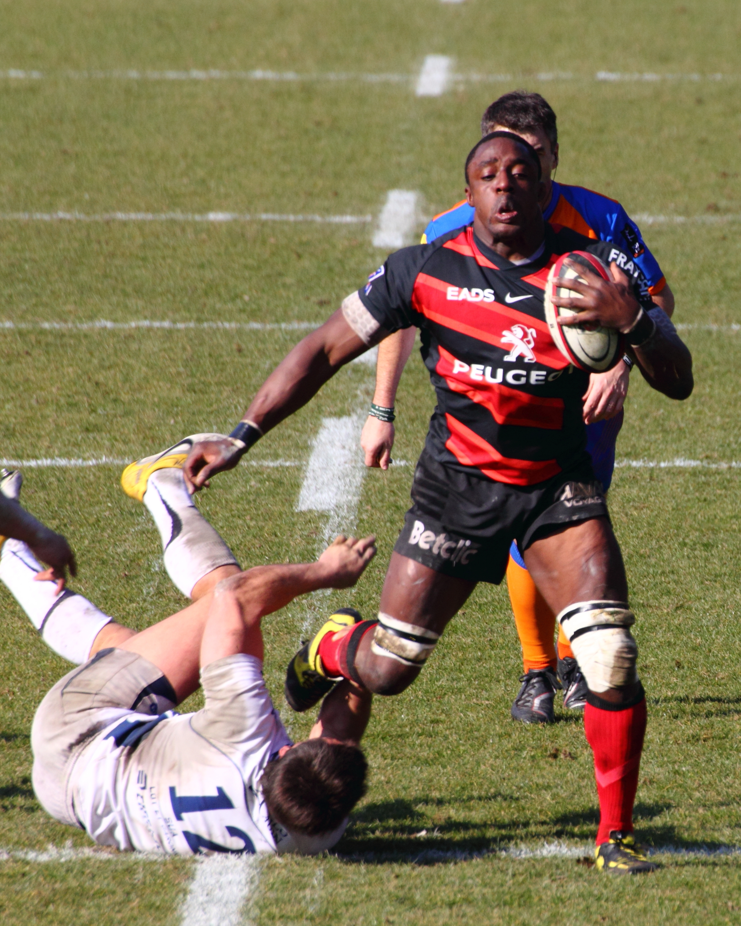 Top 14 — 18 February 2012, Stade Ernest-Wallon. Match between: Stade toulousain — Sporting union Agen Lot-et-Garonne